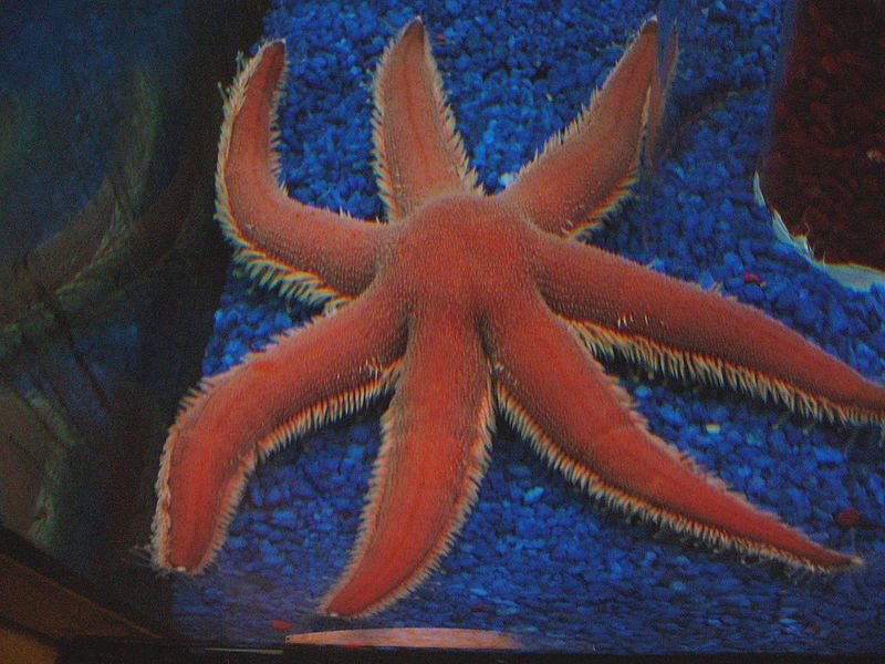 Luidia ciliaris in Sala Maremagnum of Aquarium Finisterrae (House of the Fishes), in Corunna, Galicia, Spain.